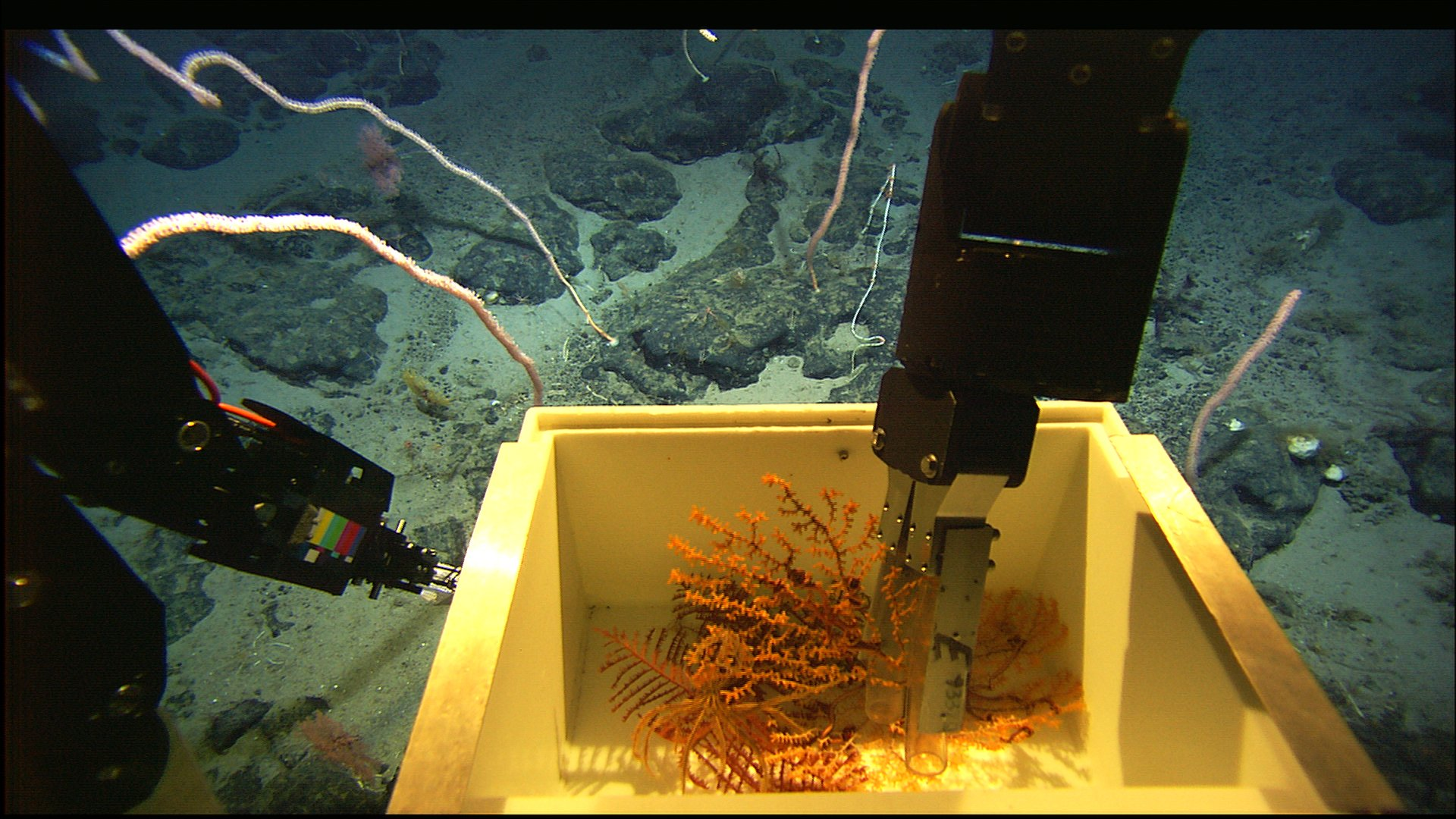 Mountains in the Sea Expedition. IFE Hercules ROV collecting corals in a 'forest' of bamboo whip corals on Balanus Seamount. New England Seamount Chain.